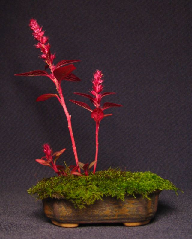 Amaranthus cruentus as a kusamono.